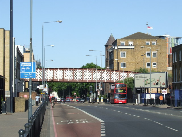 Commercial Road in Limehouse, East London. This road, which is designated as the A13, used to be the main road heading eastwards out of London towards Southend, but much of the traffic now bypasses this area using new tunnels on the A1203. The railway bridge in the background is disused.